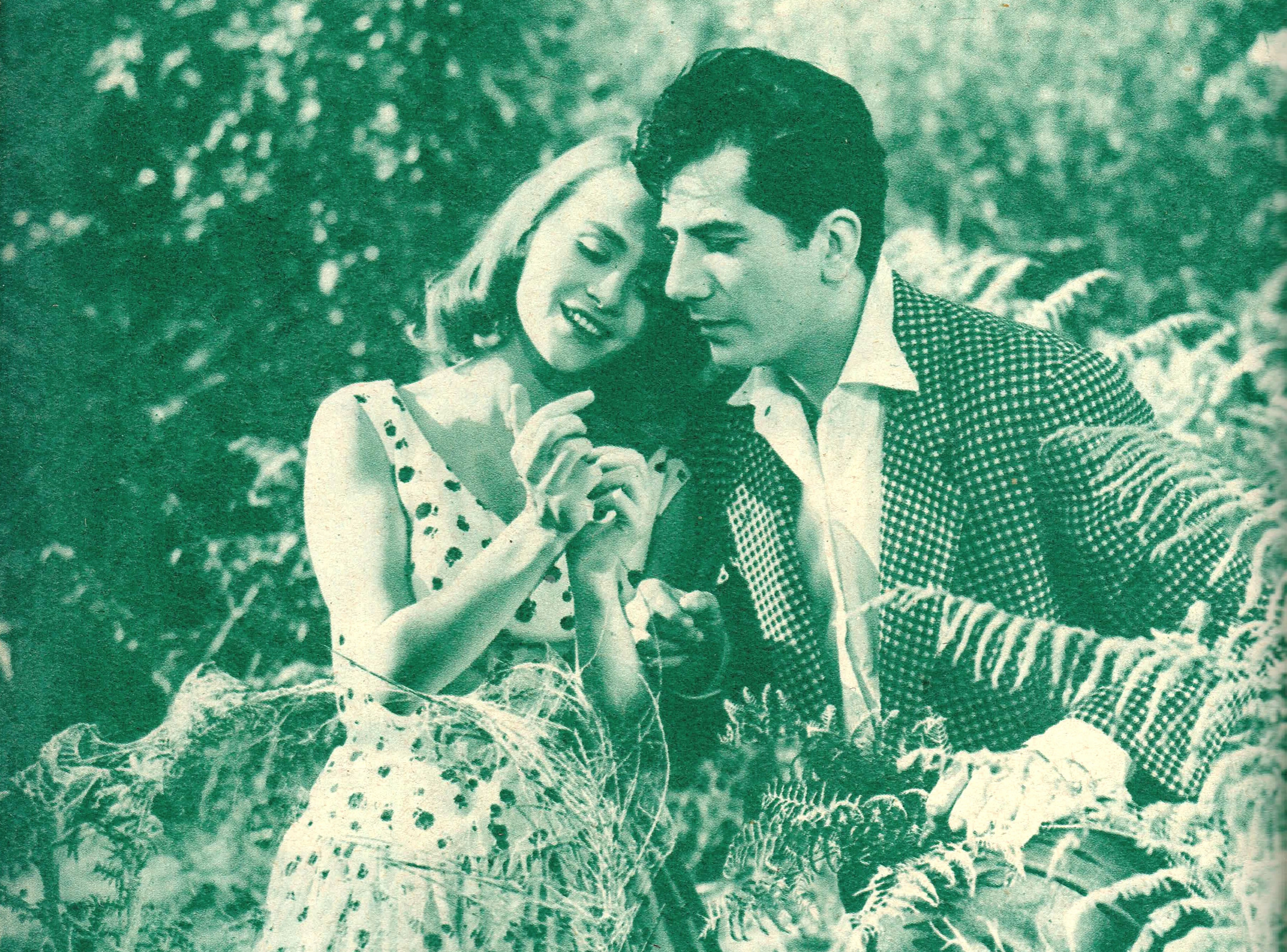 The Long Teeth, original title "Les Dents longues". (Japanese movie magazine image)